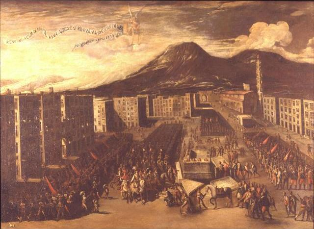 Neaples surrenders to Don Giovanni d'Austria in 1648.